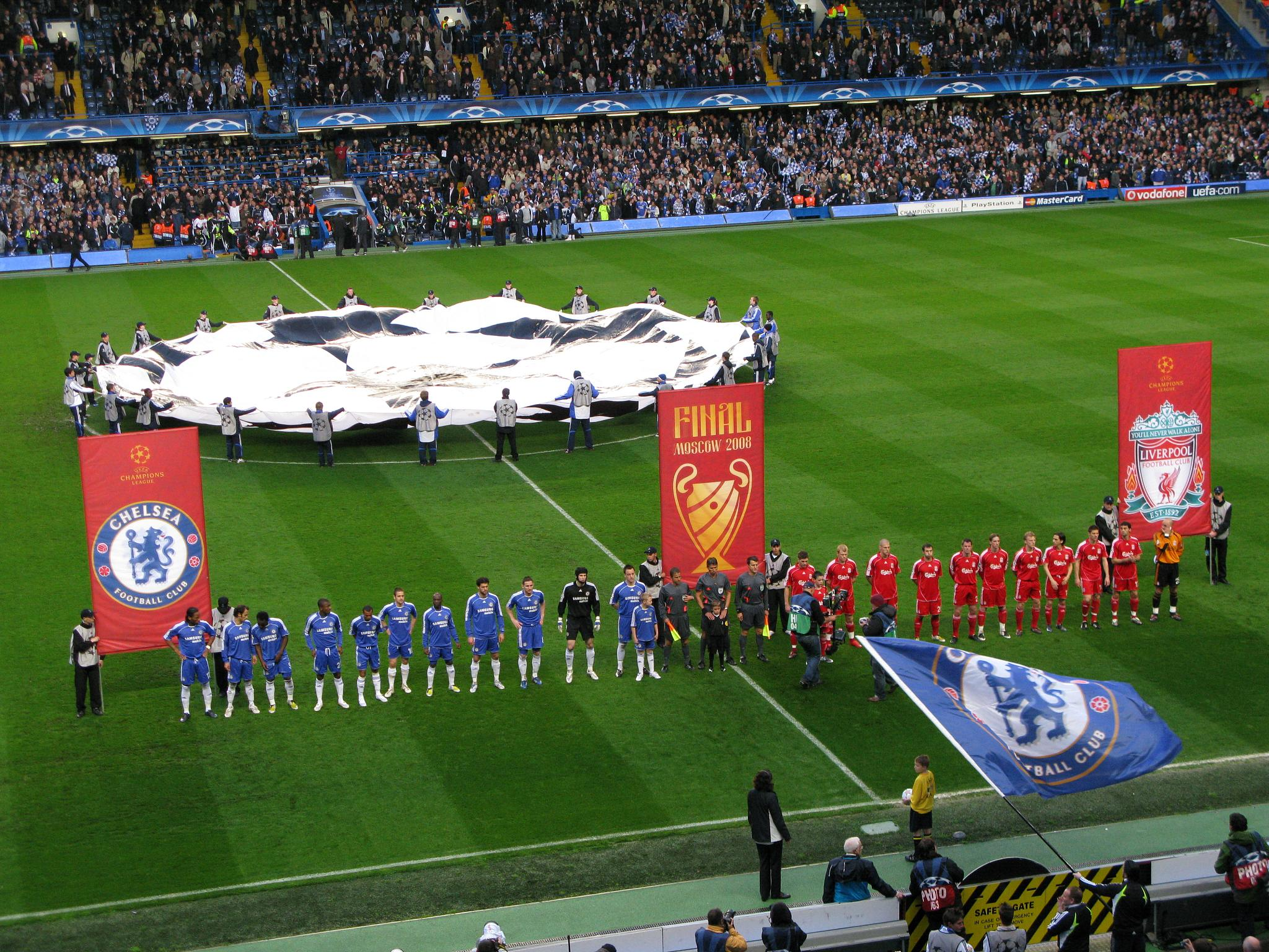 Chelsea and Liverpool players line up ahead of the second leg of their 2007–08 UEFA Champions League semi-final at Stamford Bridge, London, on 30 April 2008